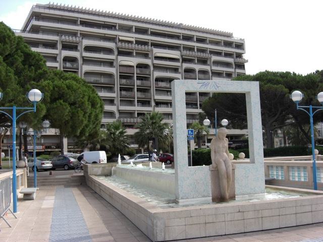 Sculpture: La Baigneuse - Alfonse Grebel